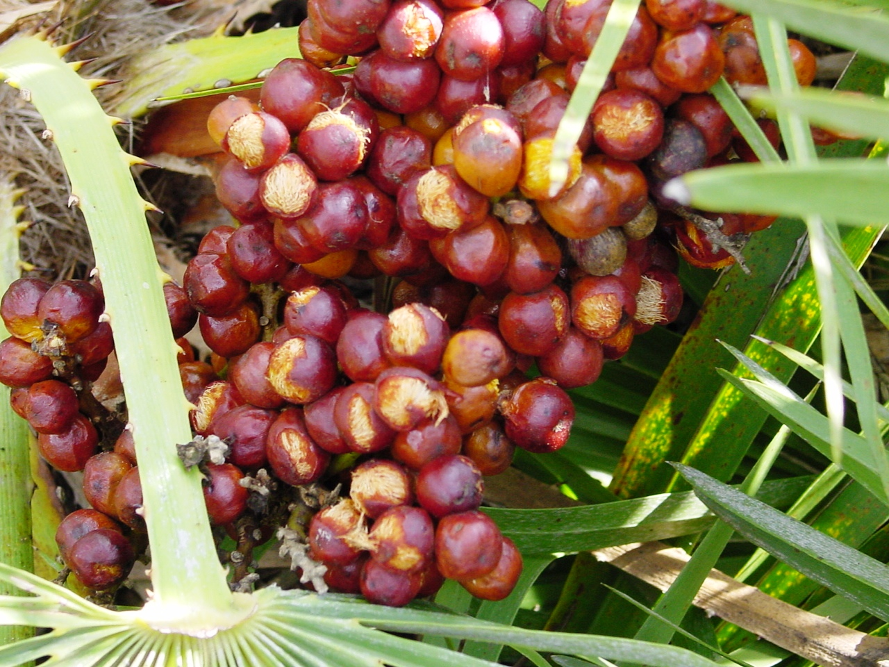 Riserva naturale dello Zingaro, Sicily Chamaerops humilis - mature fruits